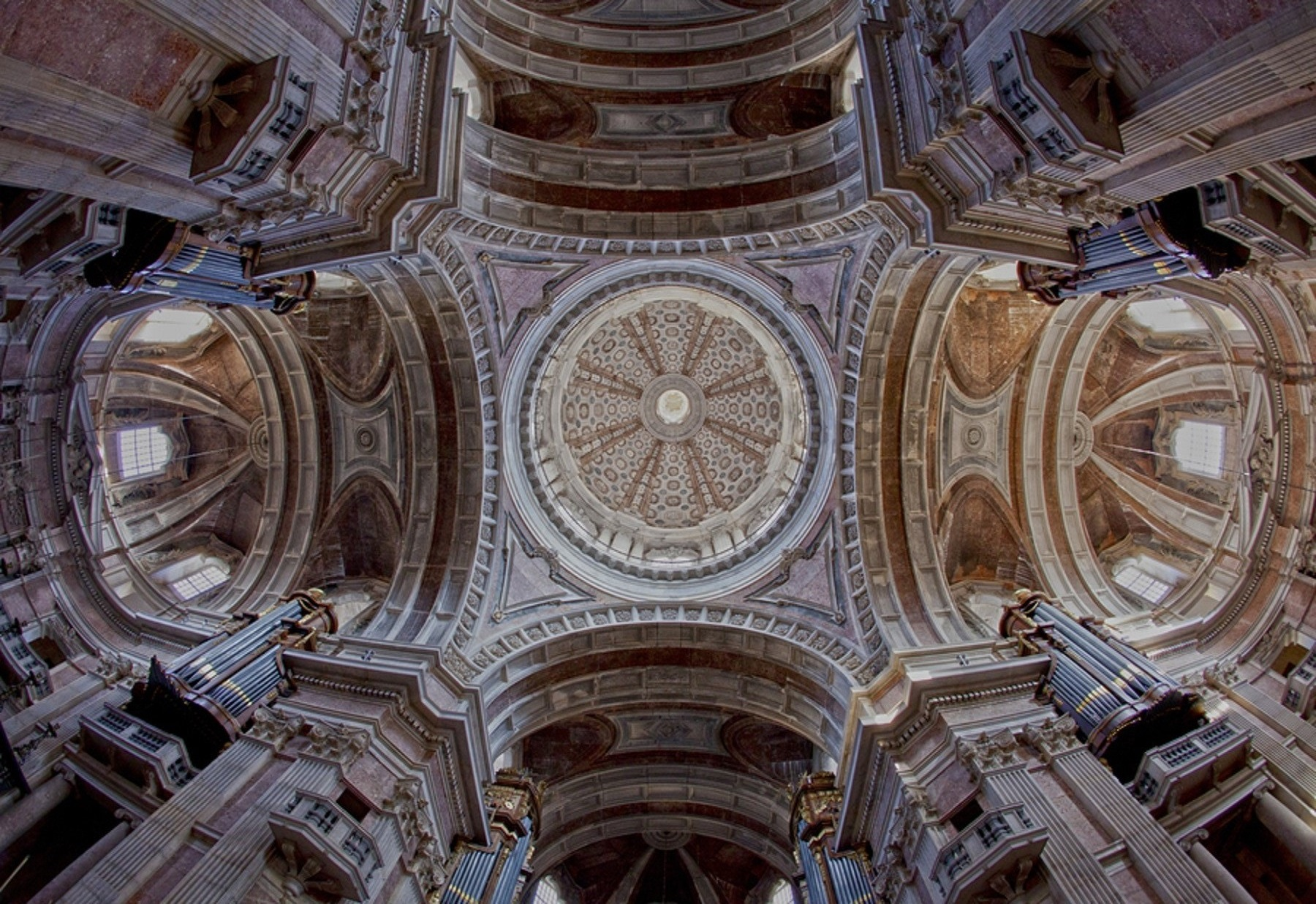 The cupola of the basilica at the Mafra Convent. Made mostly of local marble.